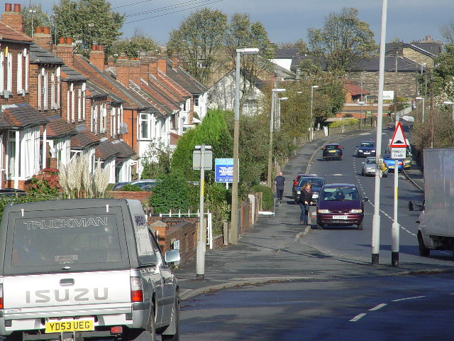 Line of Semis on Street Lane, Gildersome.